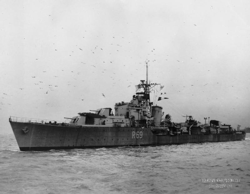 Photograph of British destroyer HMS Ulysses.